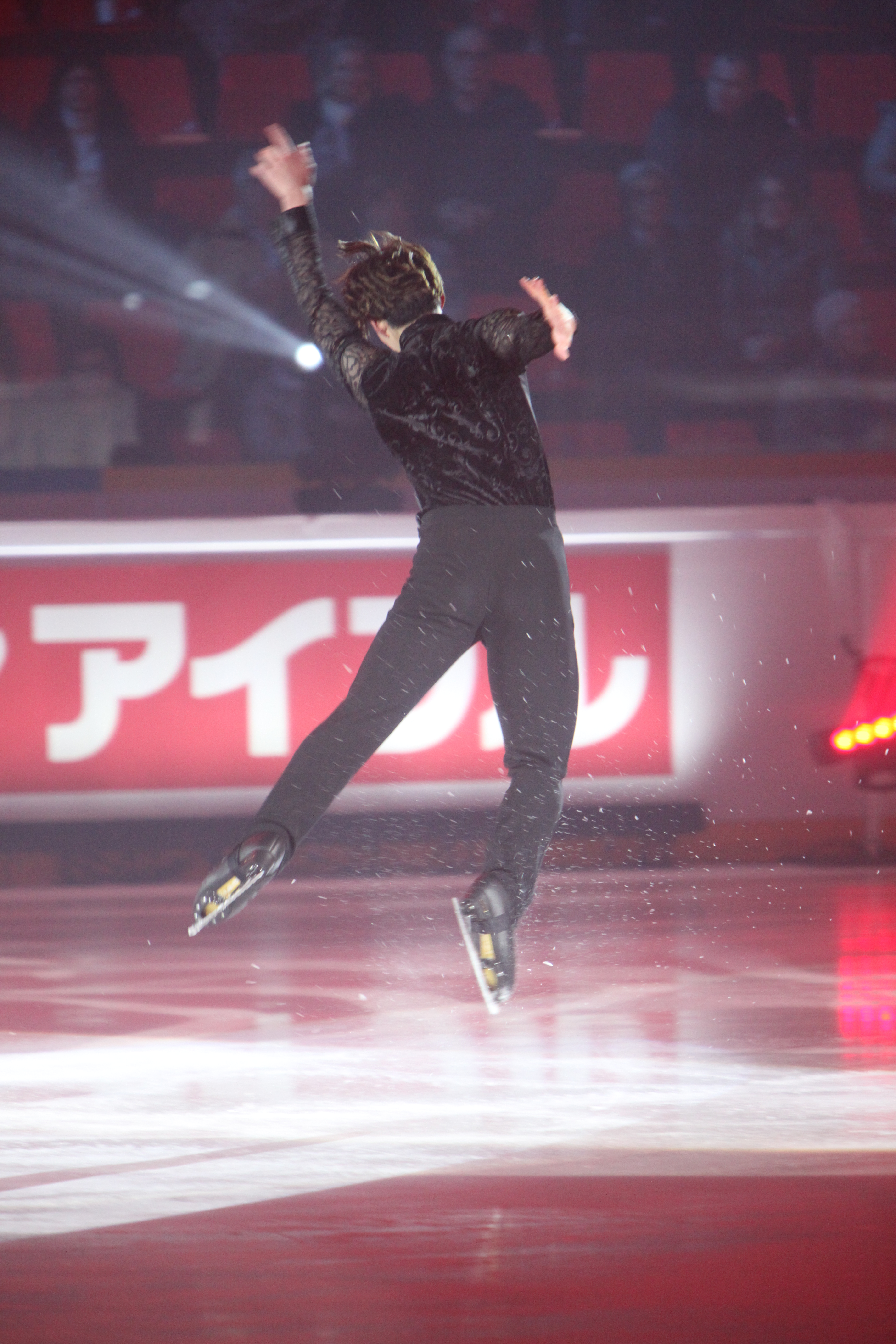 Keiji Tanaka during the gala at the Internationaux de France de Patinage 2018.